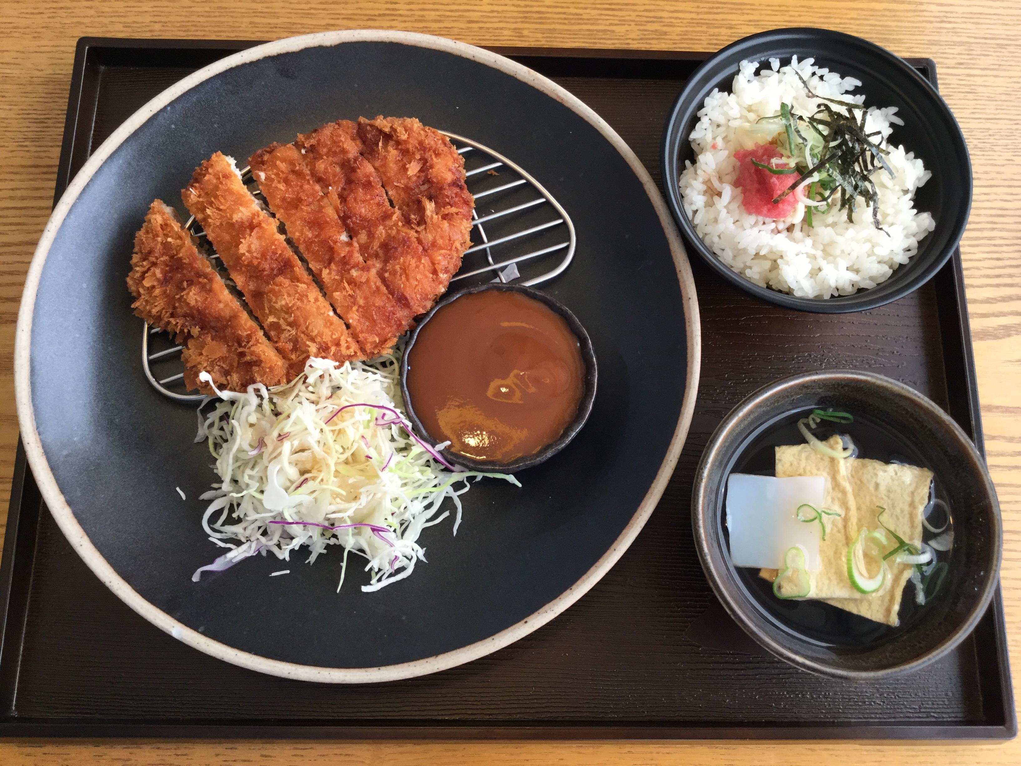 Original Tonkatsu